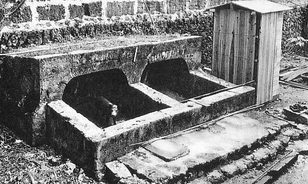 Fuuru (Pig toilet) in Pre-war Showa era